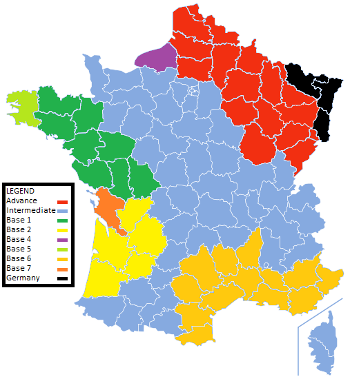 Compiled by Gaarmyvet from, all created by User:Marmelad